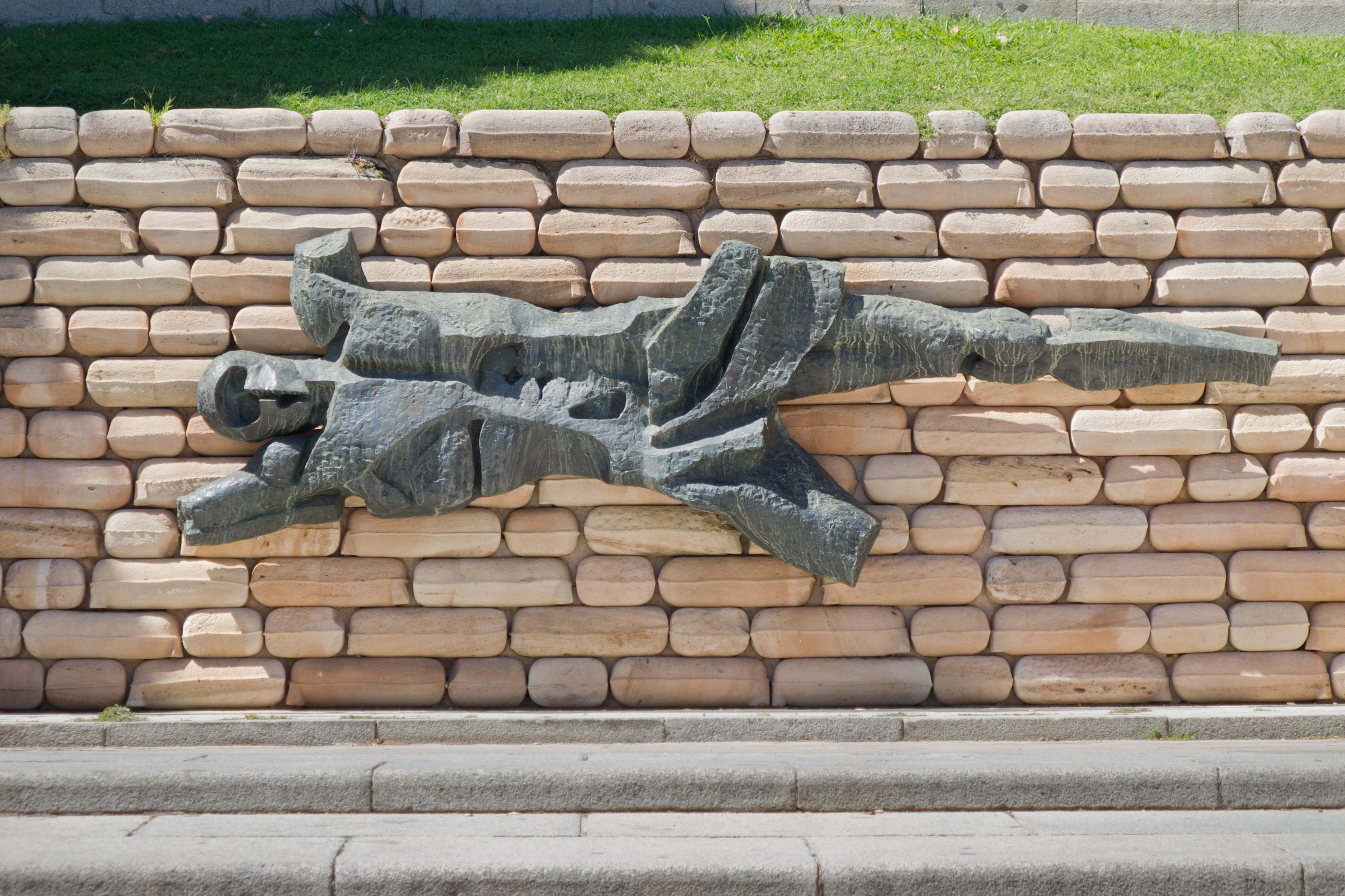 Monument of the Barracks of the Mountain, Madrid, Spain.